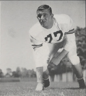 Photograph of Ed Voytek, Purdue football player